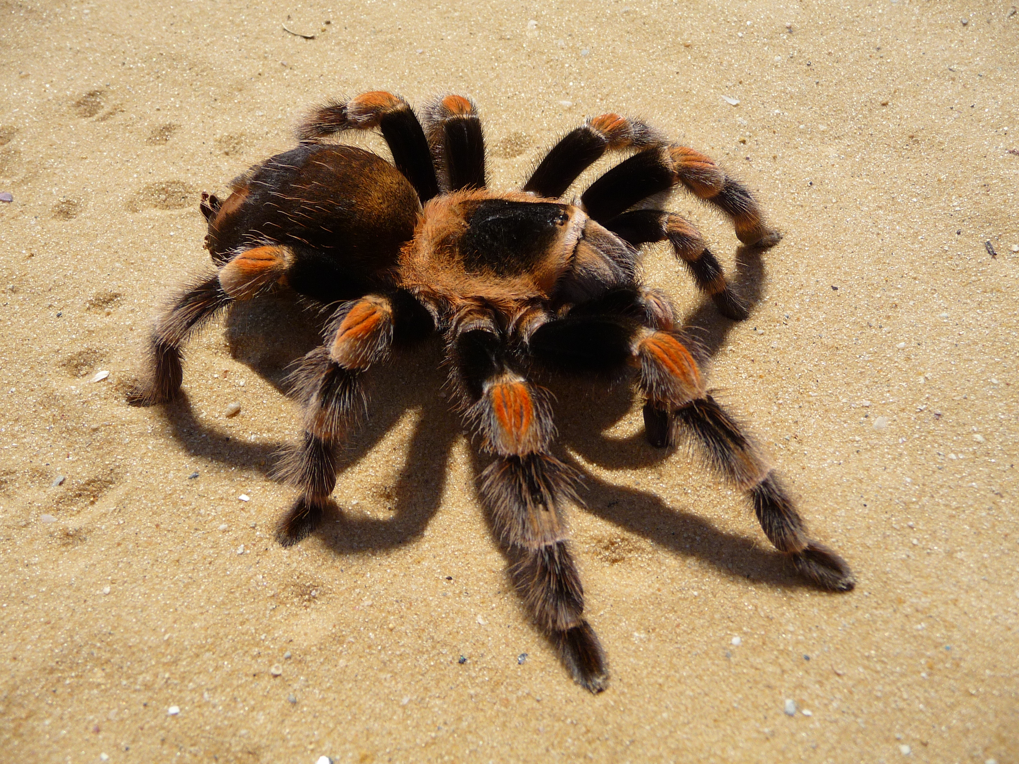 Mexican Red-kneed Tarantula, Mexican Red-kneed birdeater. Female (Brachypelma smithi)